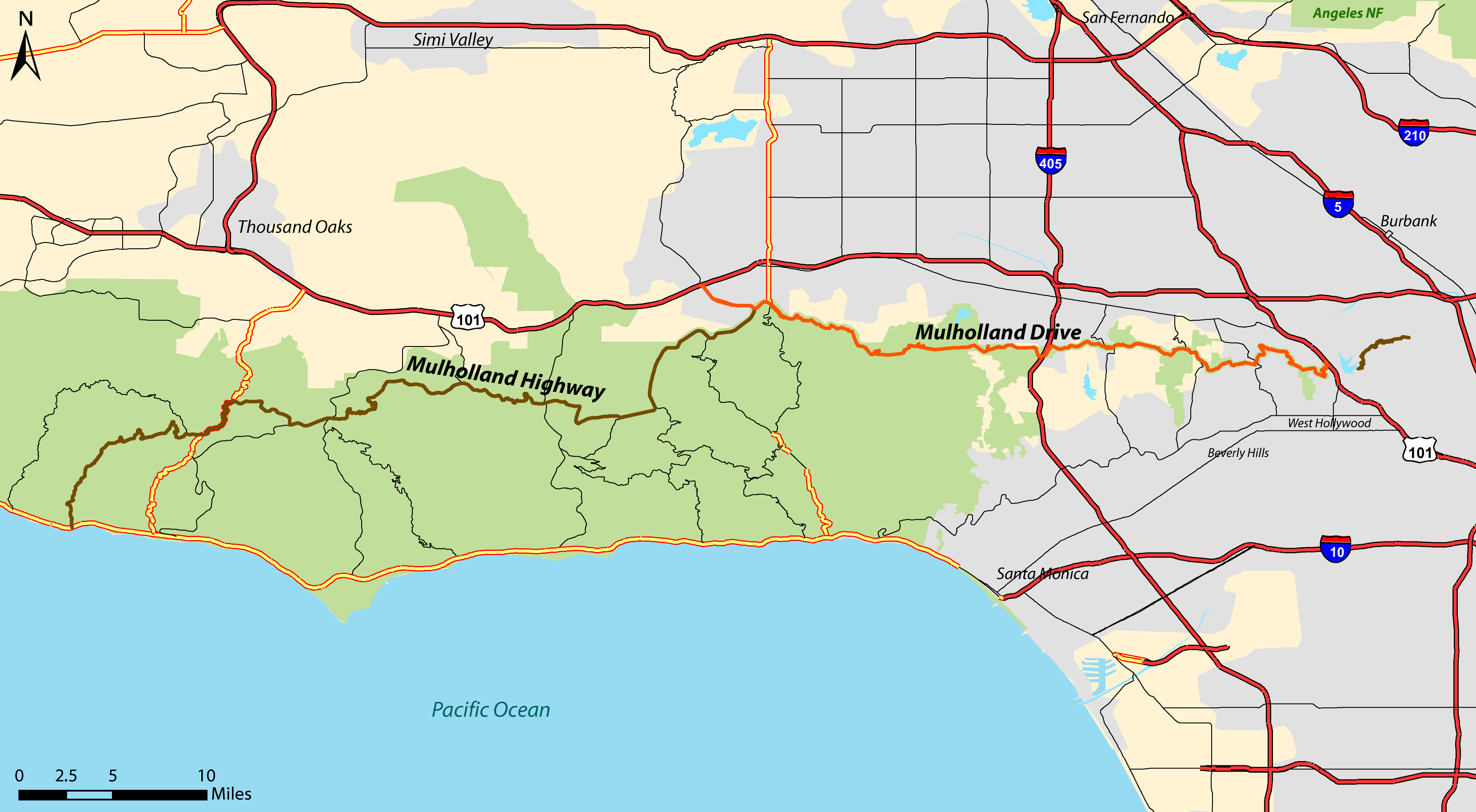 Road map of Mulholland Drive (eastern) and Mulholland Highway (western) in Los Angeles County, California. Created by User:Darkcore using TIGER/LINE 2000 files for Los Angeles and Ventura Counties, and StreetMap USA..